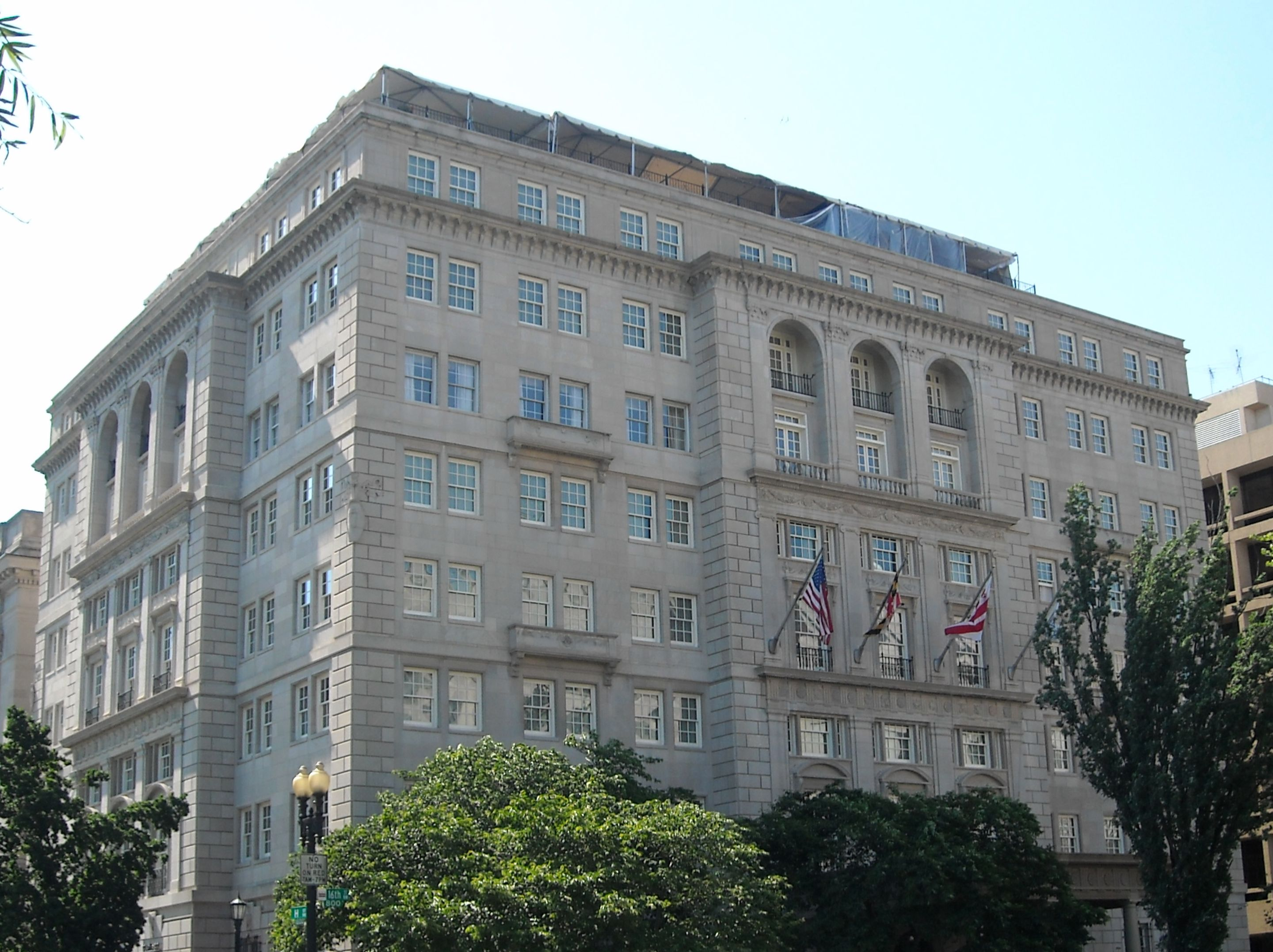 Hay-Adams hotel in Washington, D.C. The hotel is located on H Street, NW, across from the White House.